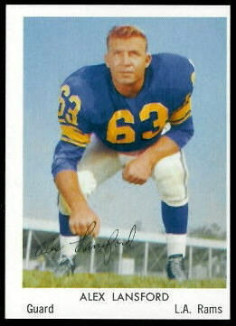 A 1959 promotional image of Los Angeles Rams player Alex "Buck" Lansford.